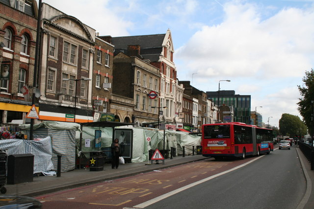 Whitechapel Road, looking east Whitechapel station is seen on the north side of the road and is fronted by the street-market stalls. An articulated bus pulls away on Route 25 towards Bow.